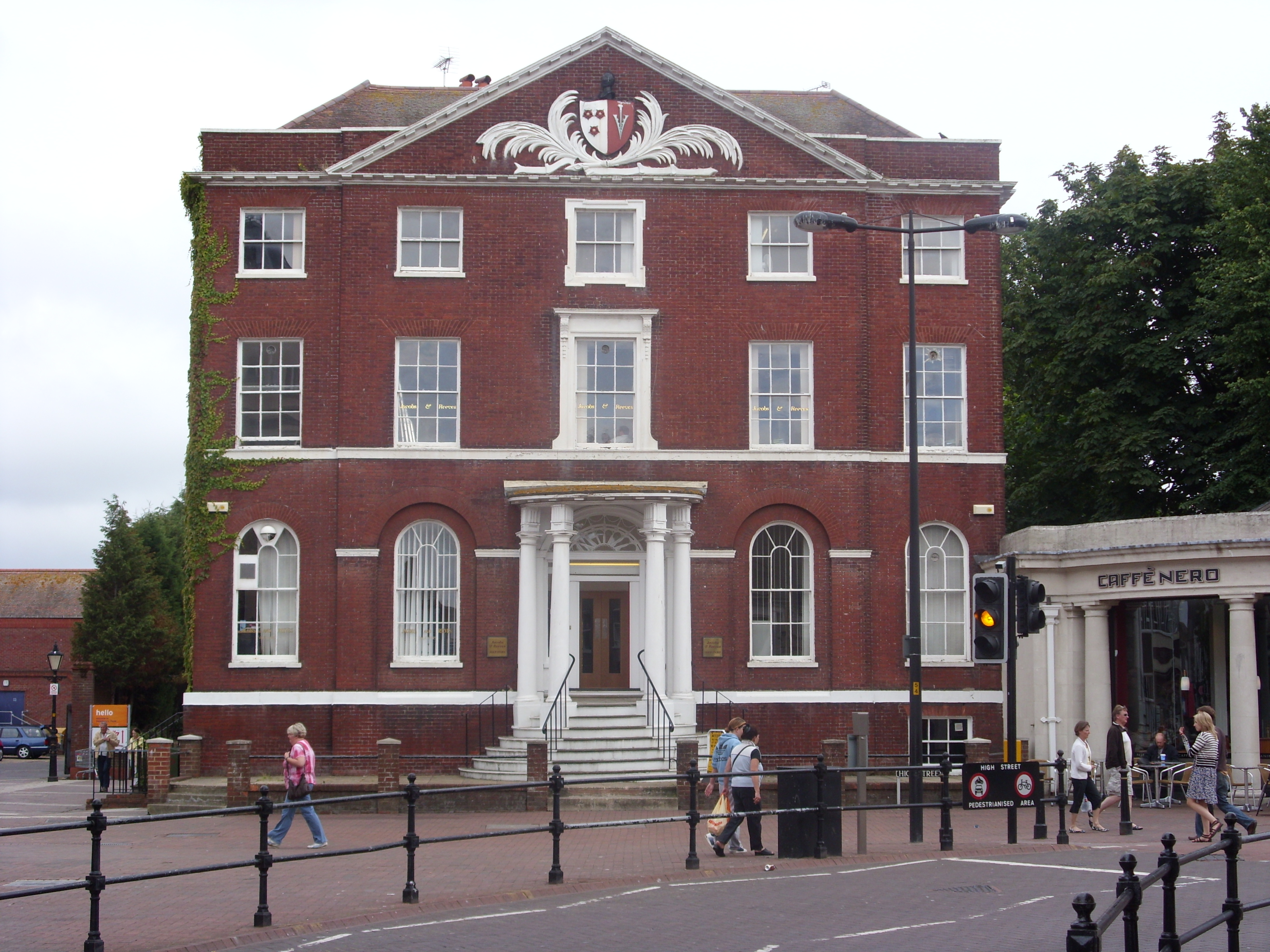 Beech Hurst, Poole. Georgian mansion house built in 1798 for Samuel Rolles, a wealthy merchant.